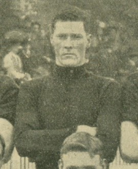 Photograph of Harry Neil from 1908-1910